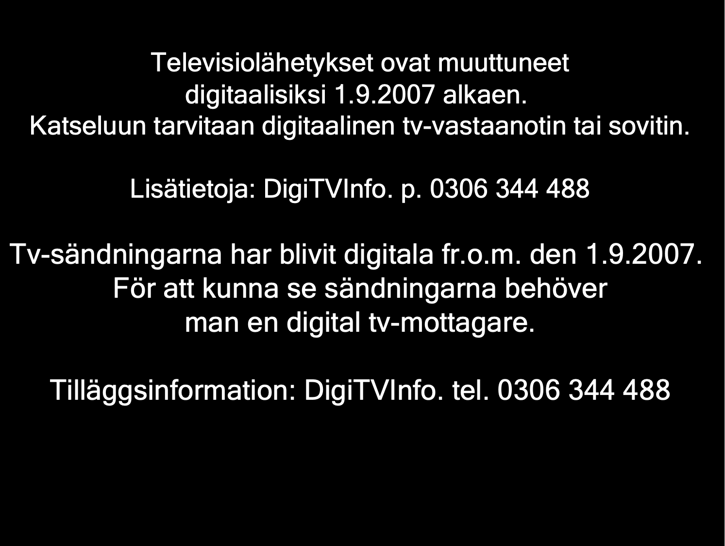 Improved quality image of notice that was broadcast by Finnish television channel YLE 1 on 1 September 2007 after analogue transmissions were terminated in Finland. The text reads as follows: Finnish: Televisiolähetykset ovat muuttuneet digitaalisiksi 1.9.2007 alkaen. Katseluun tarvitaan digitaalinen tv-vastaanotin tai sovitin. Lisätietoja: DigiTVInfo. p. 0306 344 488